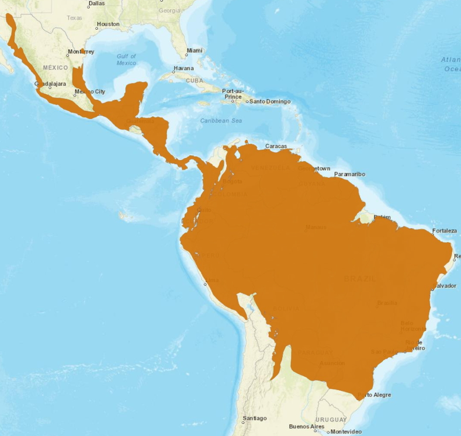 Distribution of Ocelot